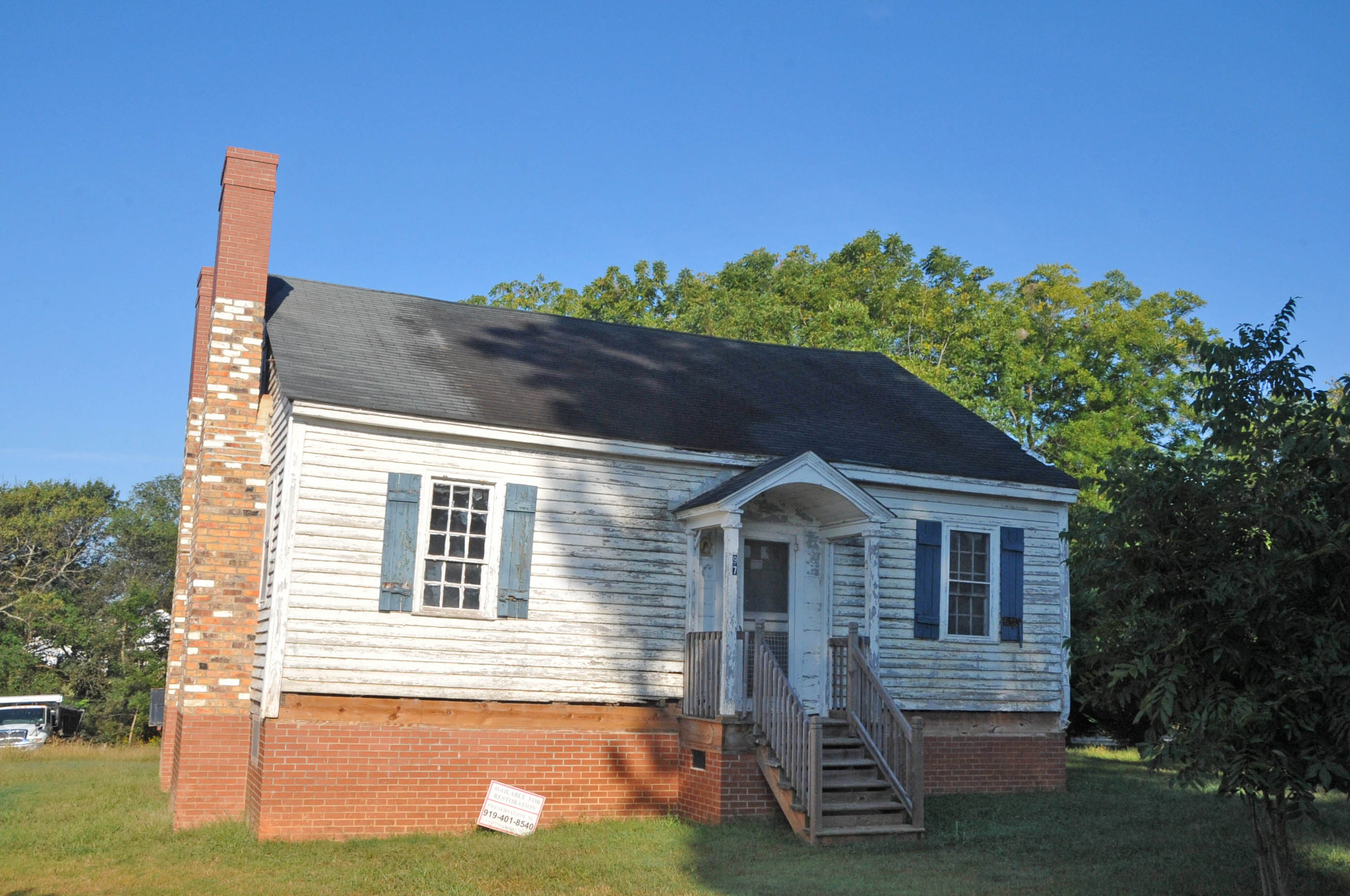 EARLY 19TH CENTURY FEDERAL; THIS HOUSE HAS BEEN MOVED BY PRESERVATION NORTH CAROLINA TO A SITE ON SMALL STREET WITH SEVERAL OTHER HISTORIC HOMES